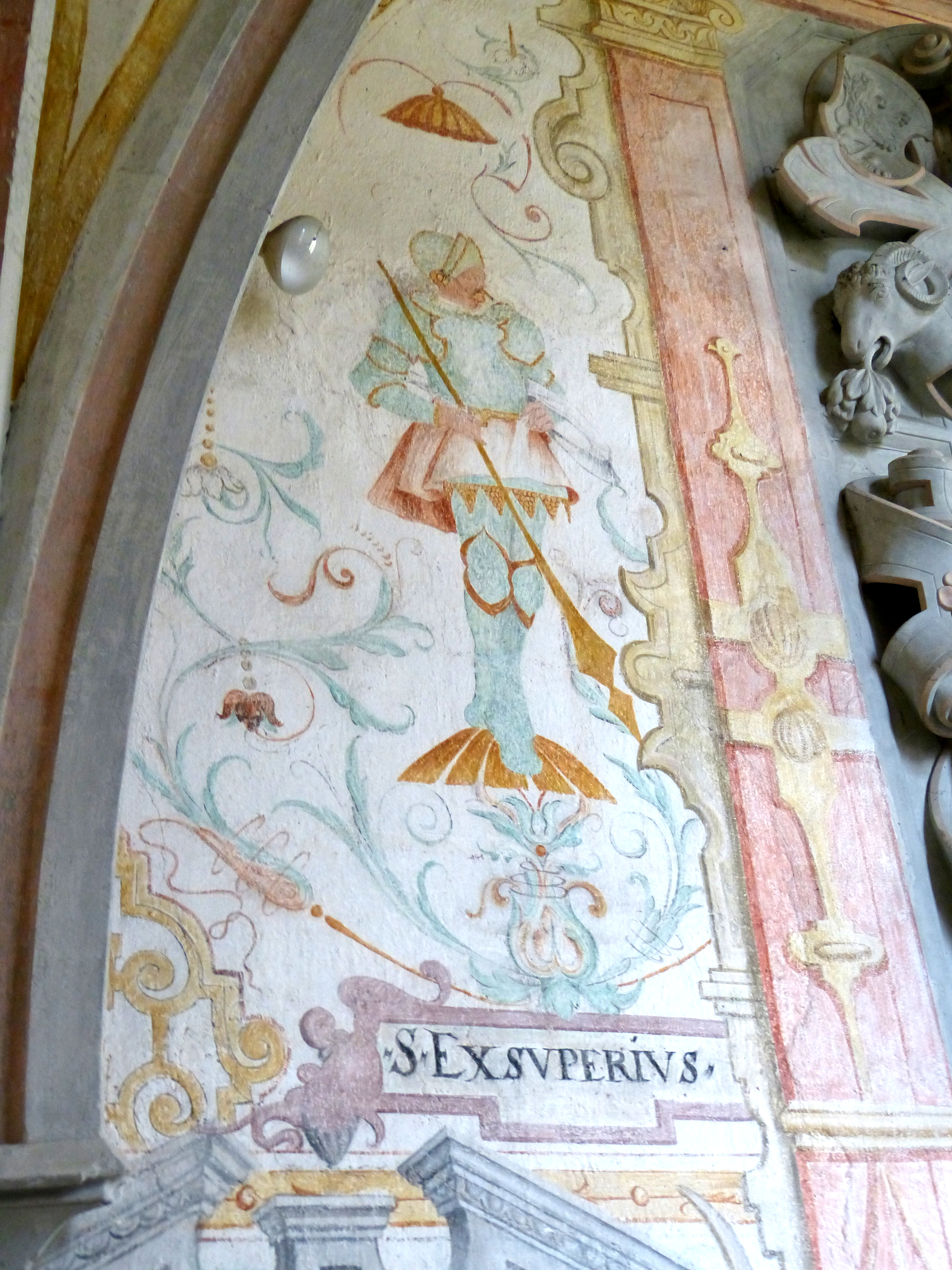 Konstanz ( Baden-Württemberg ). Minster - Rotunda of Saint Maurice: Fresco ( 16th century ) showing Saint Exuperius.